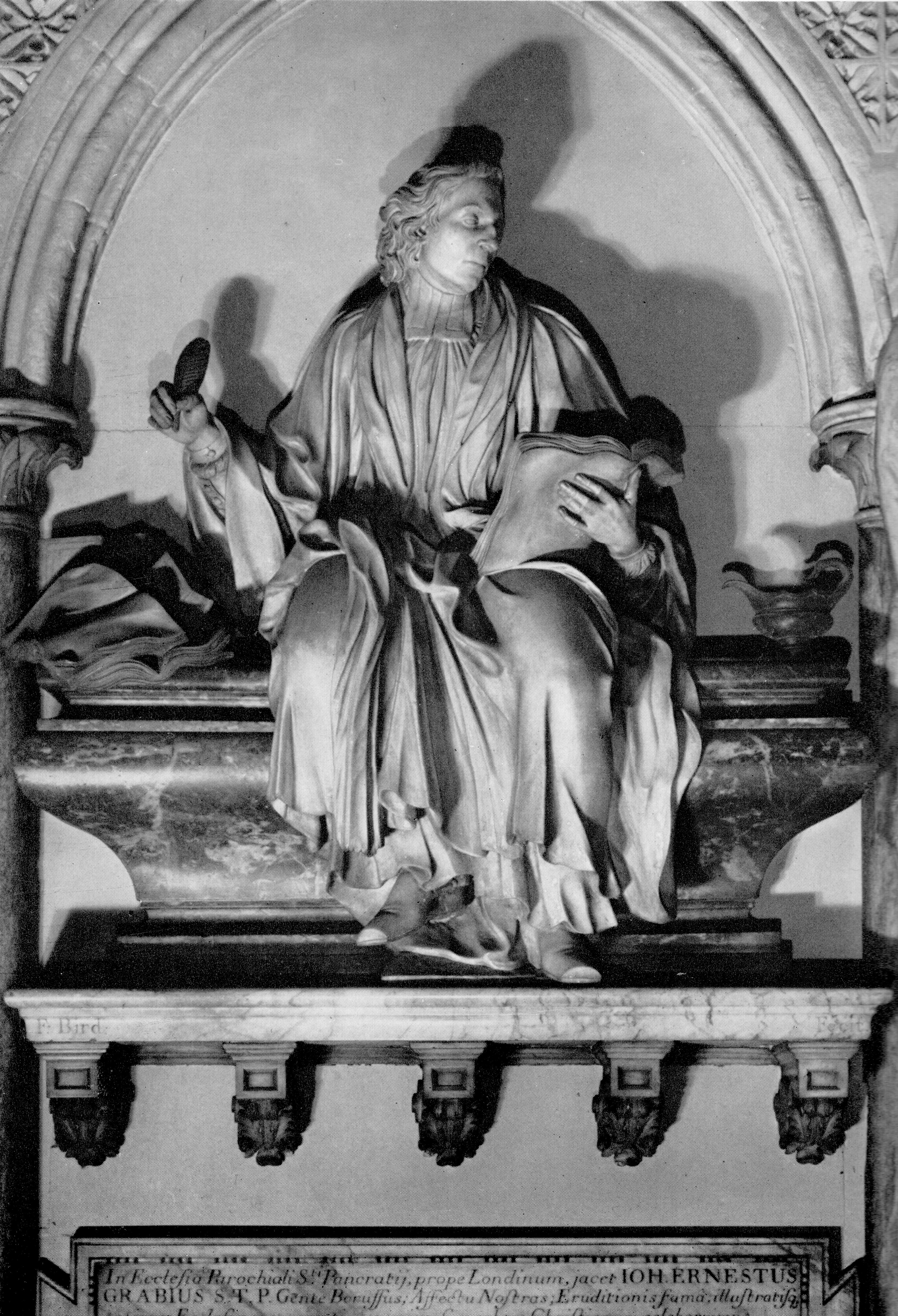 Francis Bird: Monument to Dr Ernest Grabe, d. 1711. Westminster Abbey, London